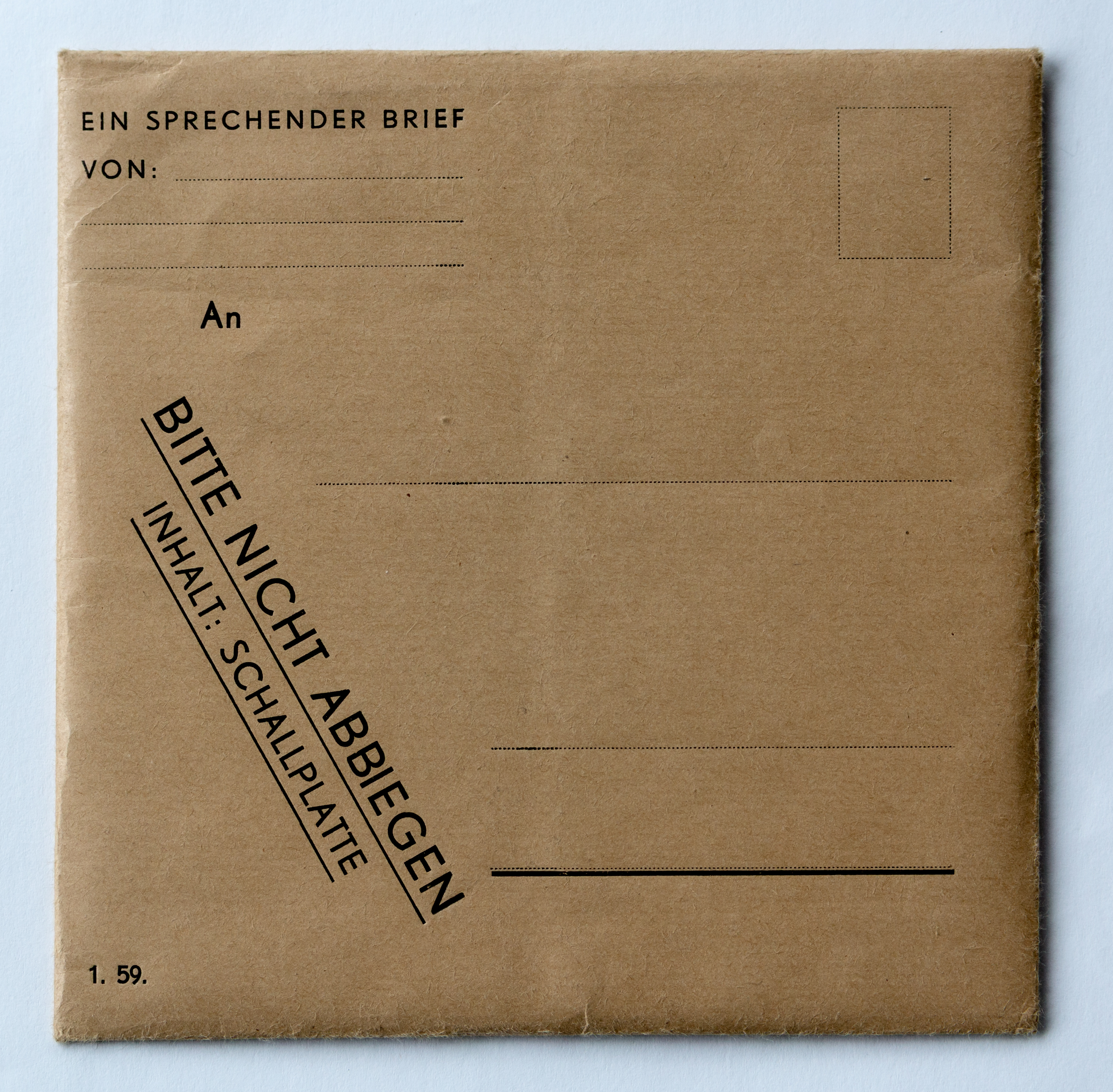 Envelope for sending “Talking Letter”